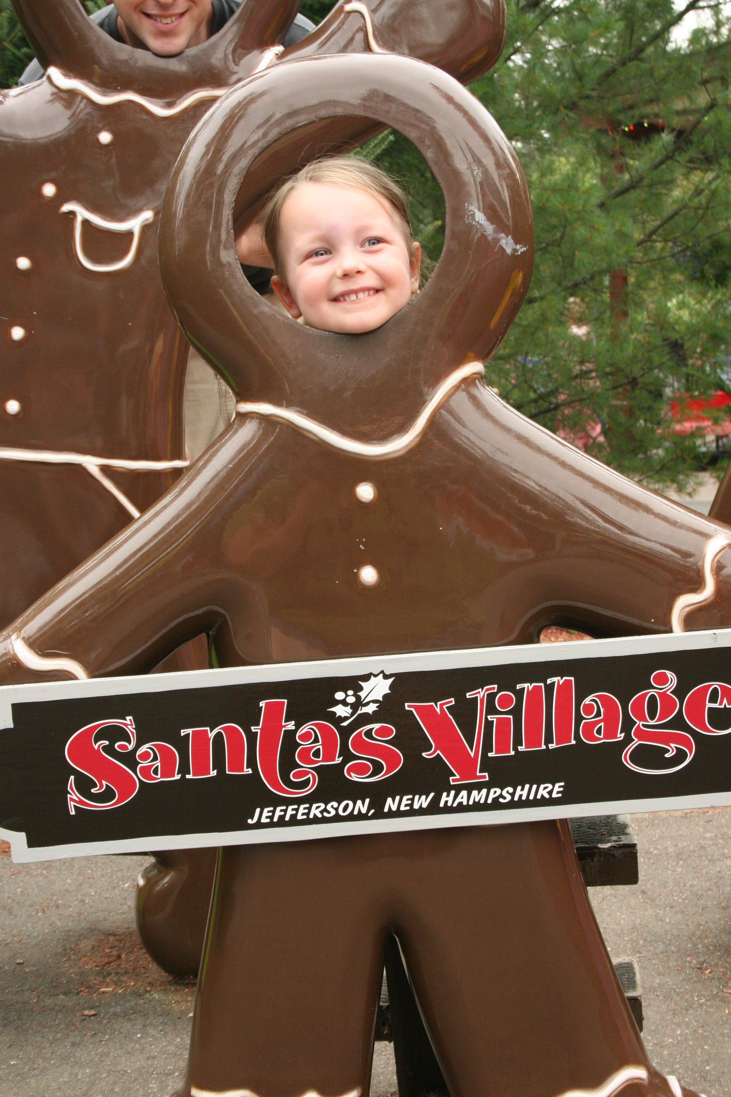 At Santa's Village in Jefferson, New Hampshire, a child poses for a picture through the head of a gingerbread man.